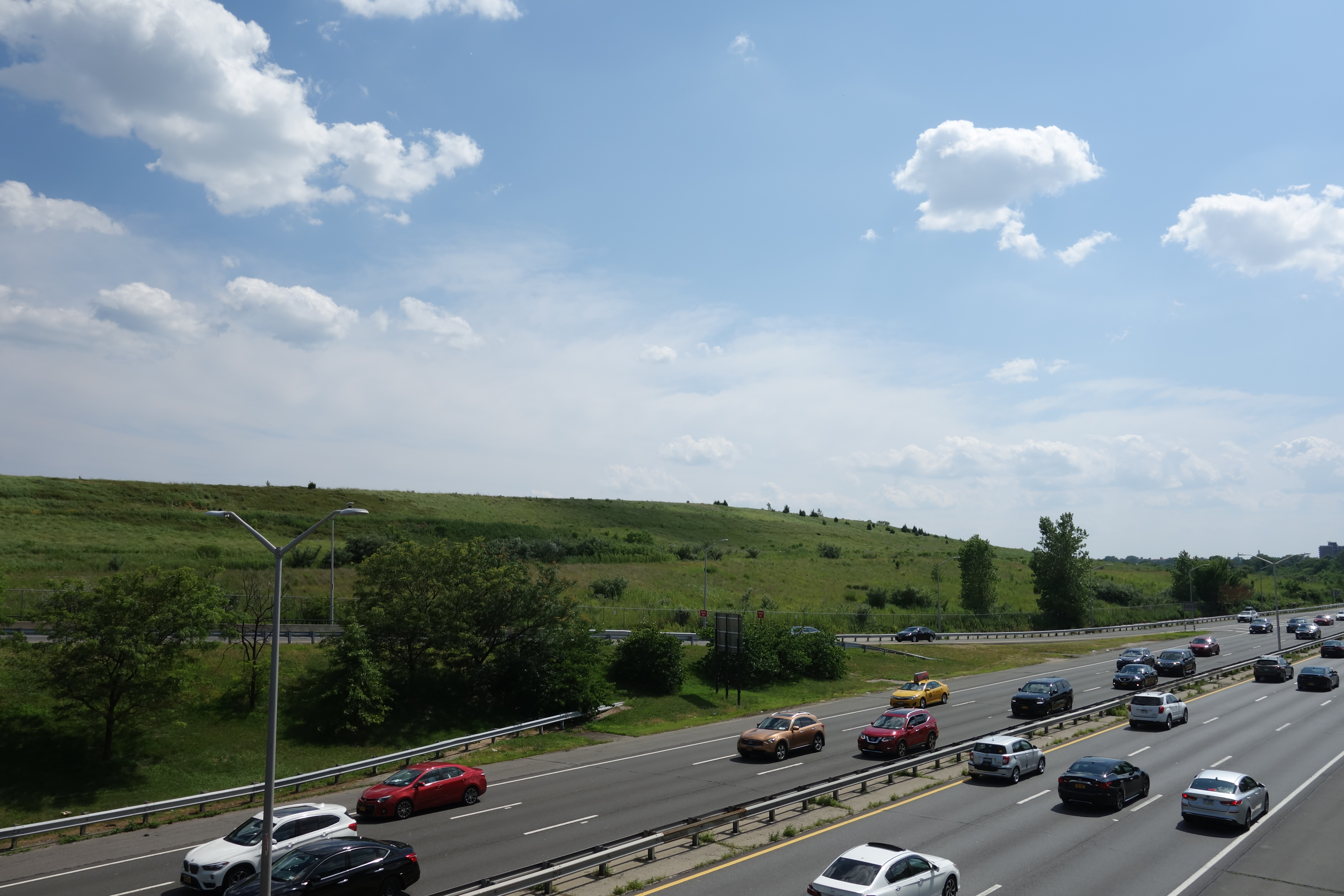 Walking south on Erskine Street across the Belt Parkway towards the Shore Parkway Greenway and Fountain Avenue Landfill in Spring Creek, Brooklyn. The former landfill is in the process of being converted into the second section of Shirley Chisholm State Park.